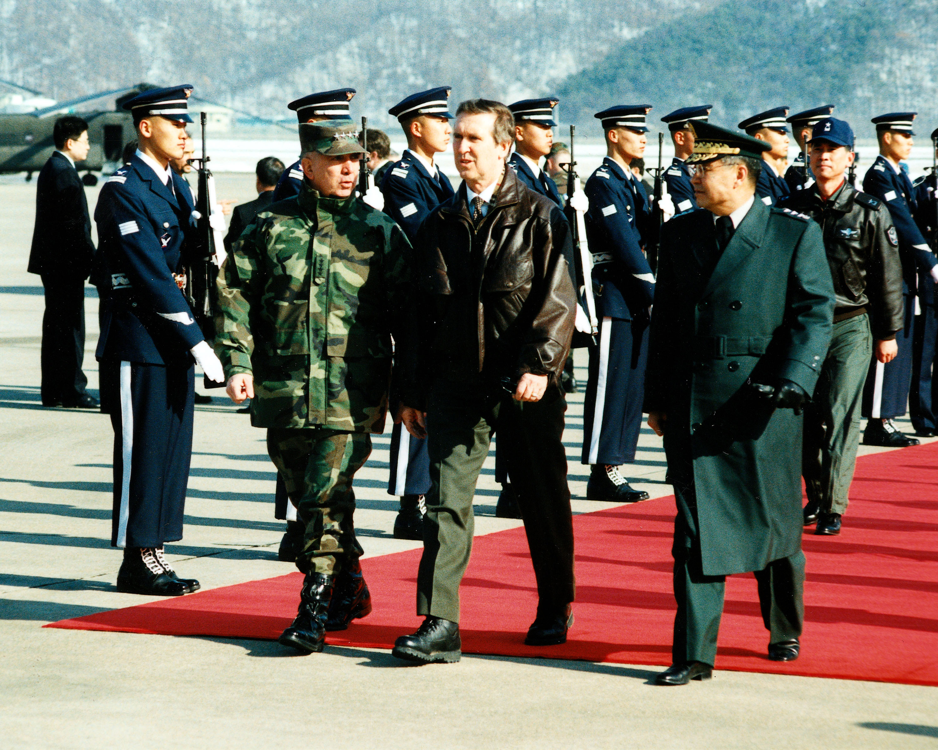 Secretary of Defense William Cohen, GEN John H. Tilelli, Commander in Chief, United Nations Command/Combined Forces Command/U.S. Forces Korea, and a Korean officer walk down the red carpet upon arriving in Korea.